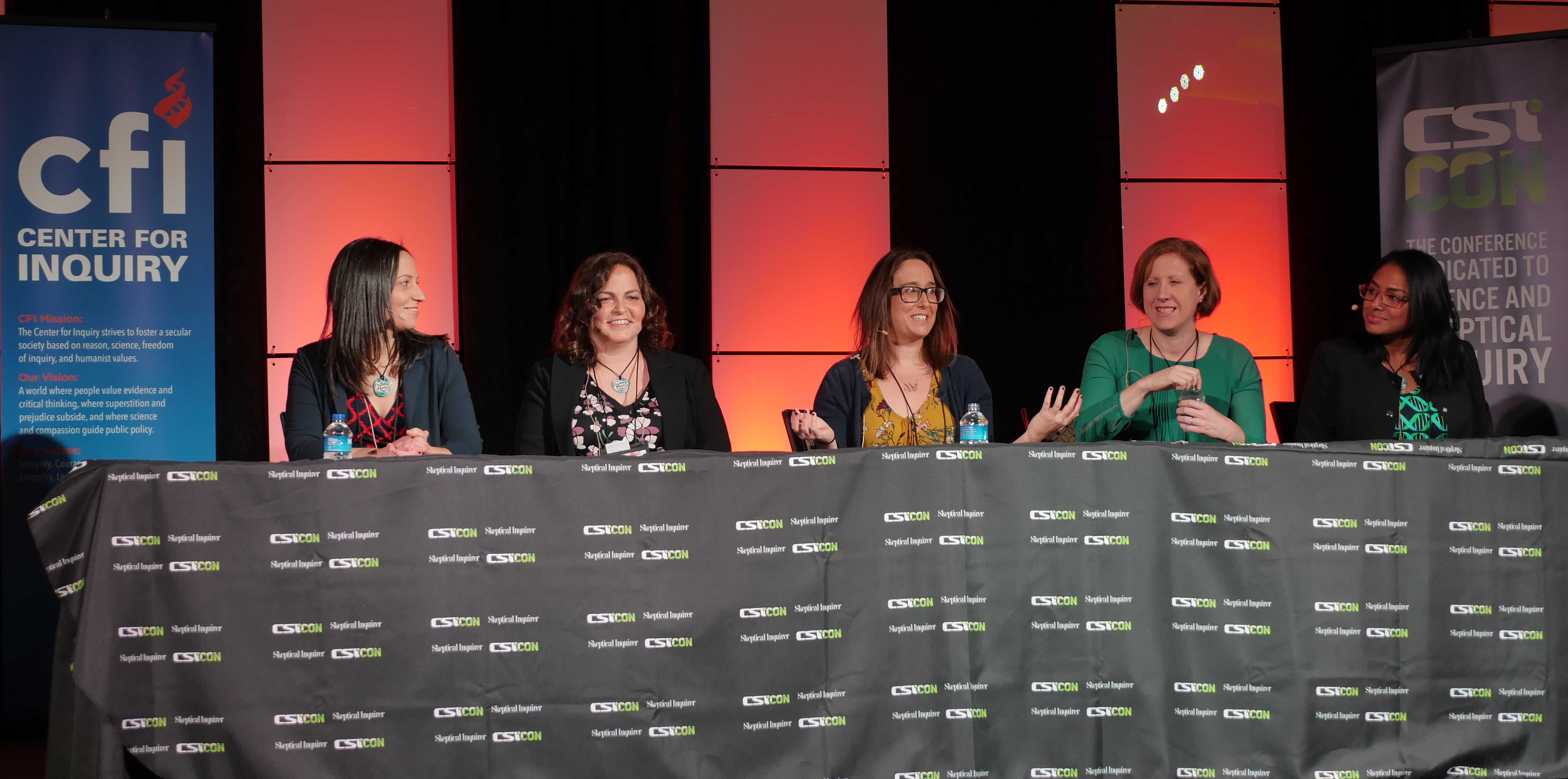 Science Moms with Alison Berstein, Layla Katiraee, Natalie Newell, Kavin Senapathy, and Jenny Splitter CSICon 2017